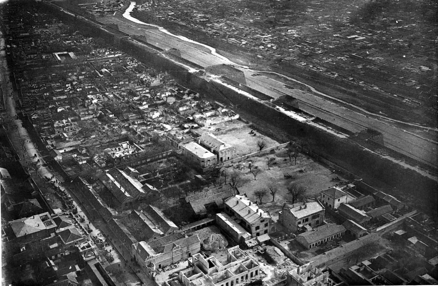 Image from La Chine à terre et en ballon.